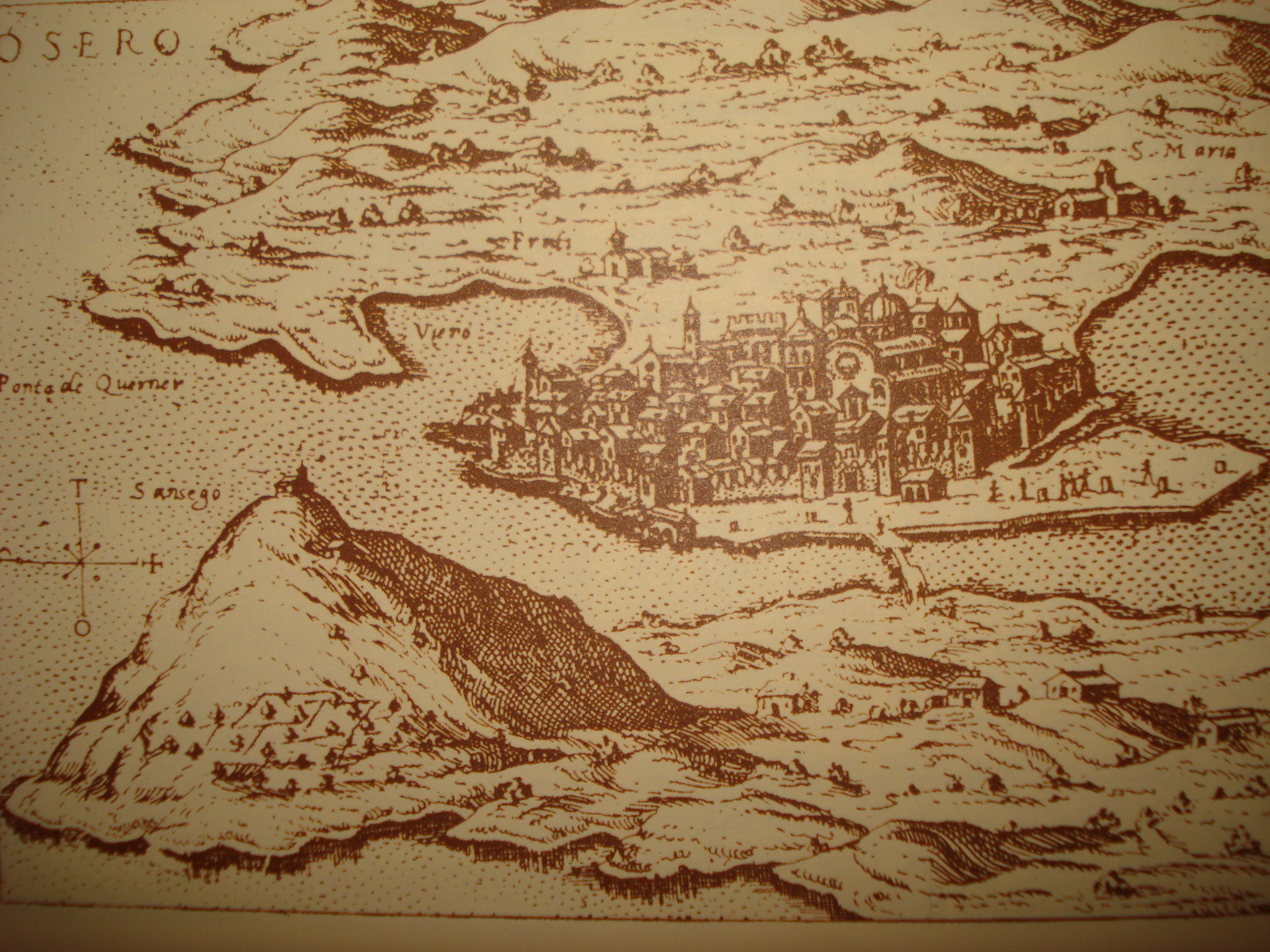 Old map of the City of Osor, Cres Island, Croatia